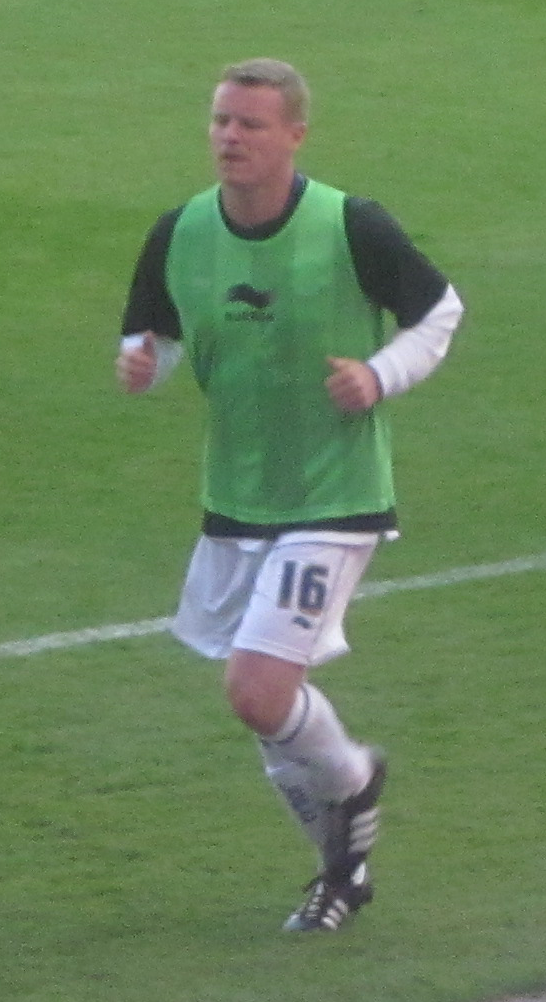 Michael Ball warming up against Real Madrid in a friendly.